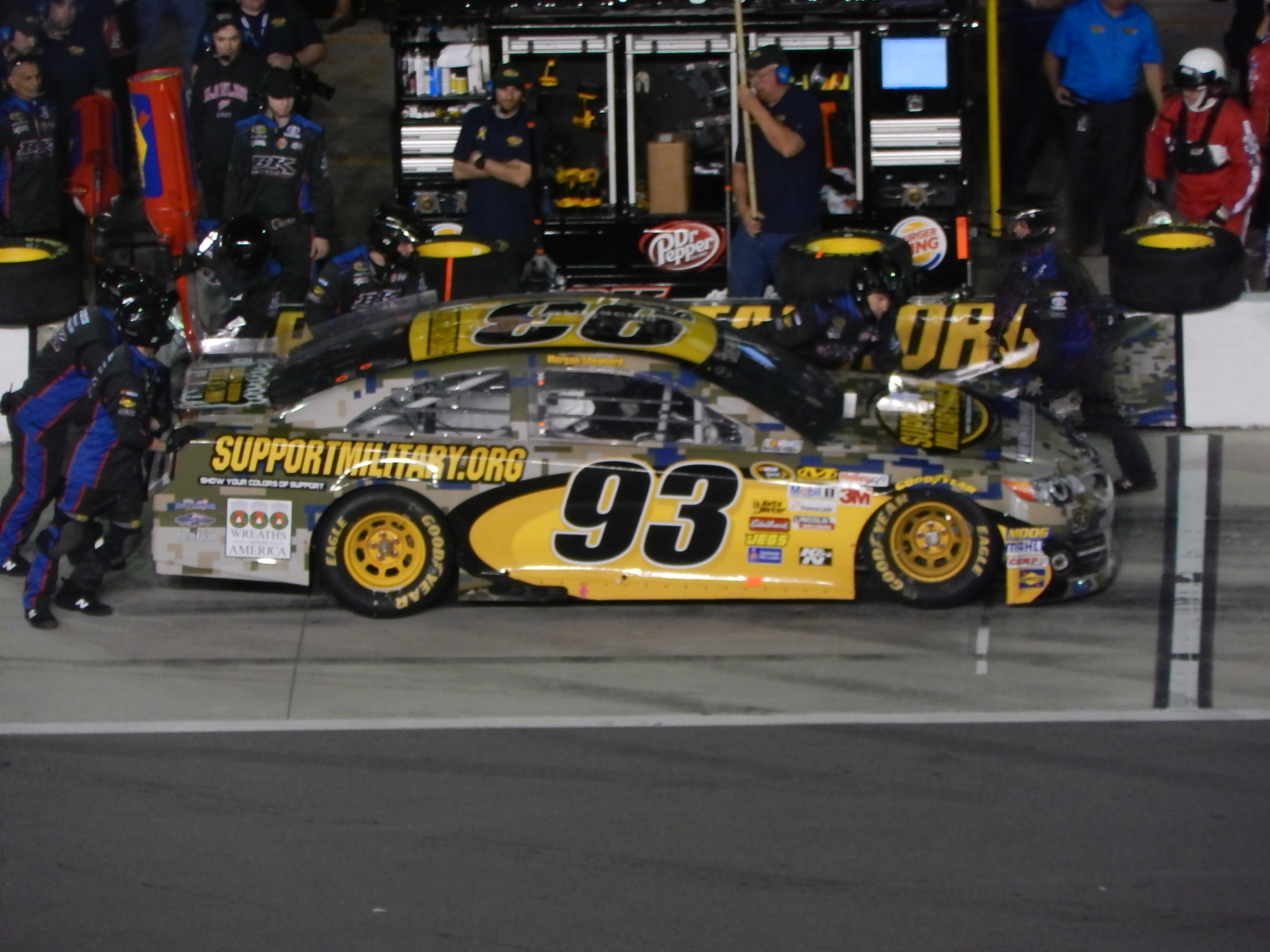 Morgan Shepherd at the Daytona duels in 2014